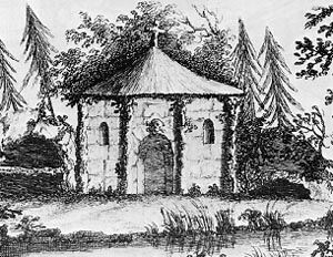 Hermitage, engraving in Universal Architecture, published 1755